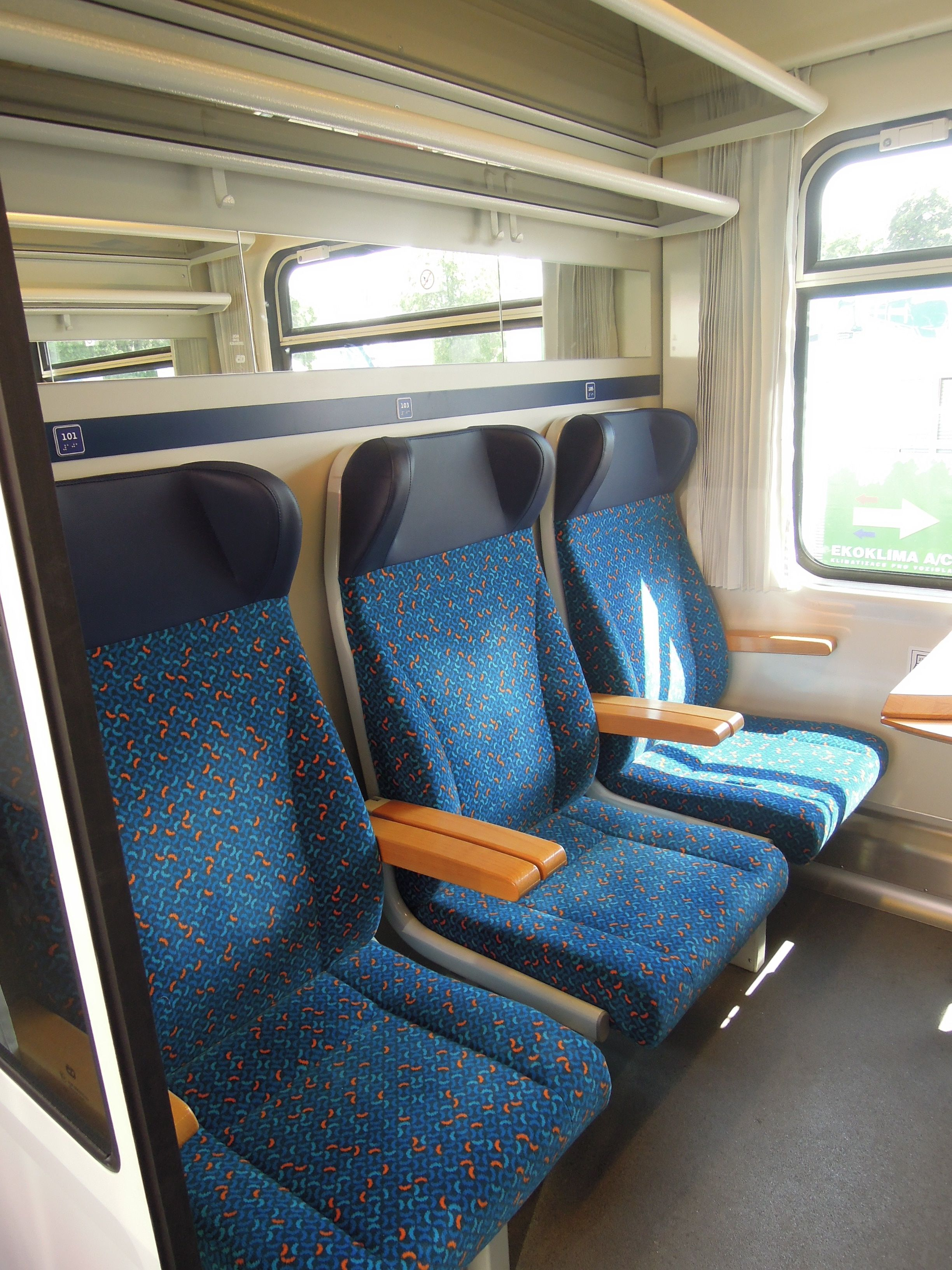 Passenger car class Bbdgmee236 of České dráhy at the Czech Raildays 2013 trade fair in Ostrava, Czech Republic